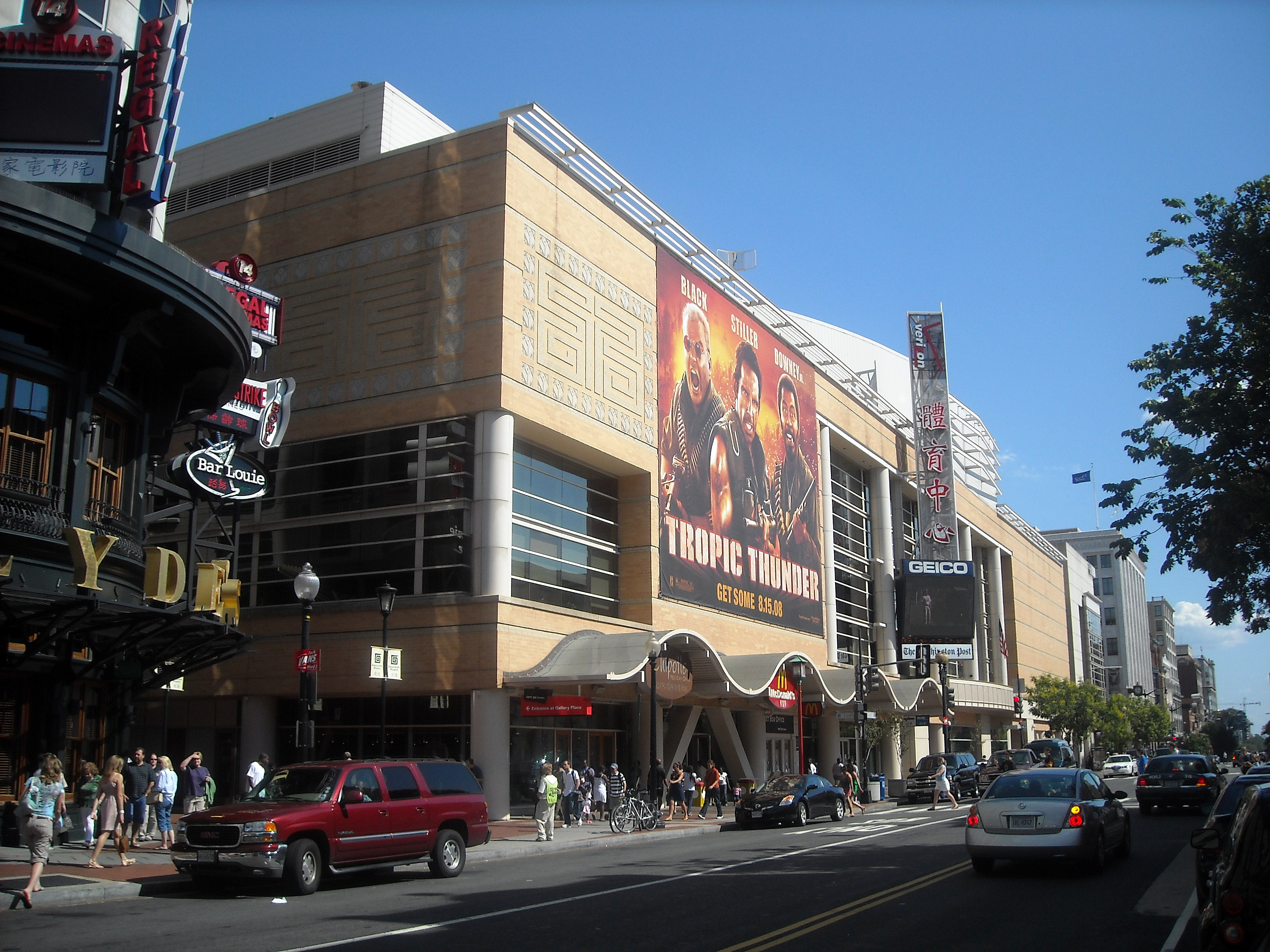 The Verizon Center in the Chinatown neighborhood of Washington, D.C.